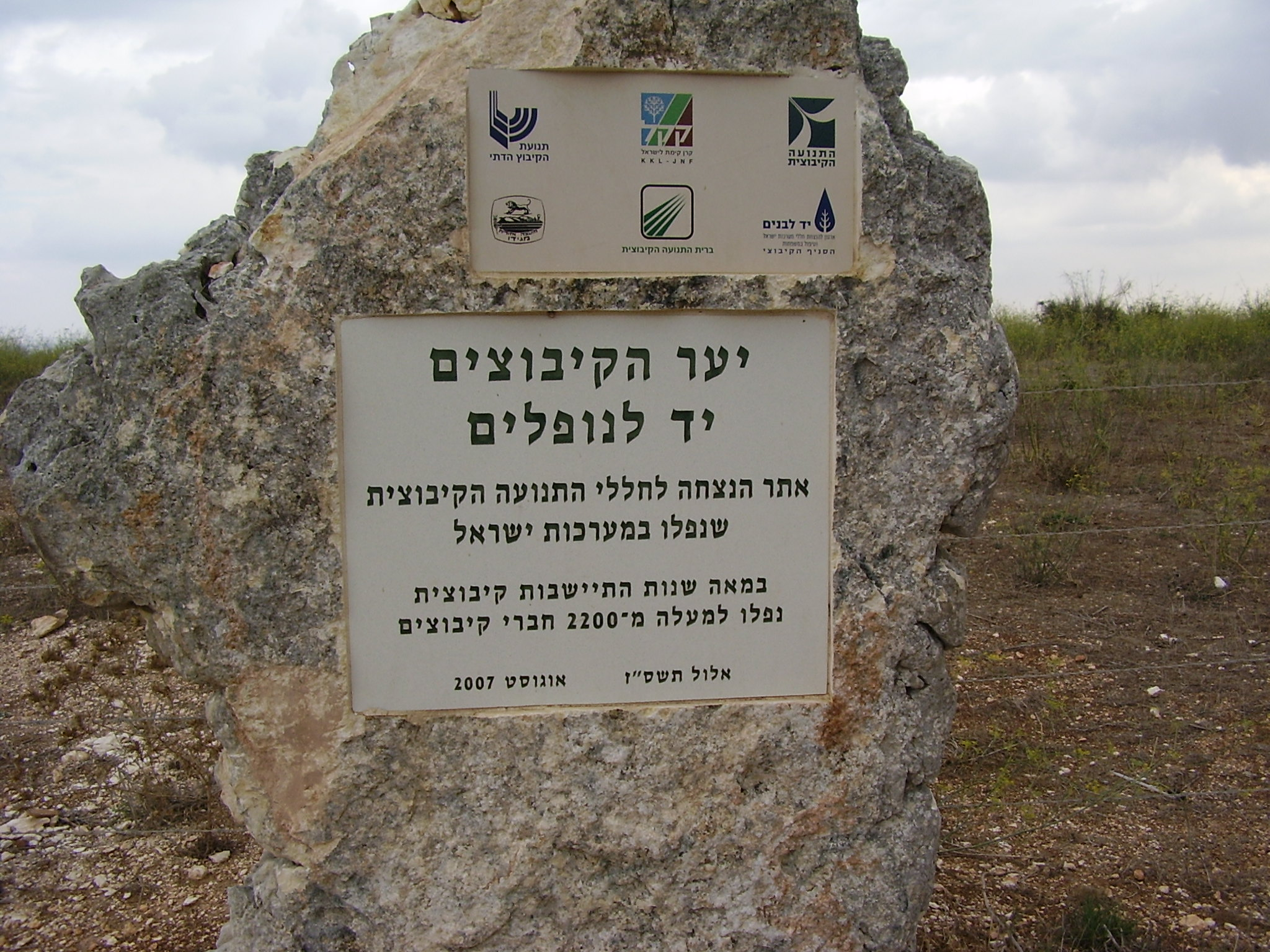 Kibbutzim Memorial